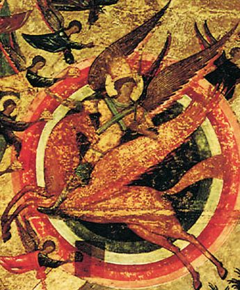 Detail of Blessed is the Host of the King of Heaven (alternatively known as Church Militant). Russian icon, ca. 1550 - 1560. Tretyakov Gallery. This icon is traditionally perceived as an allegorical representation of the conquest of the Kazan khanate.